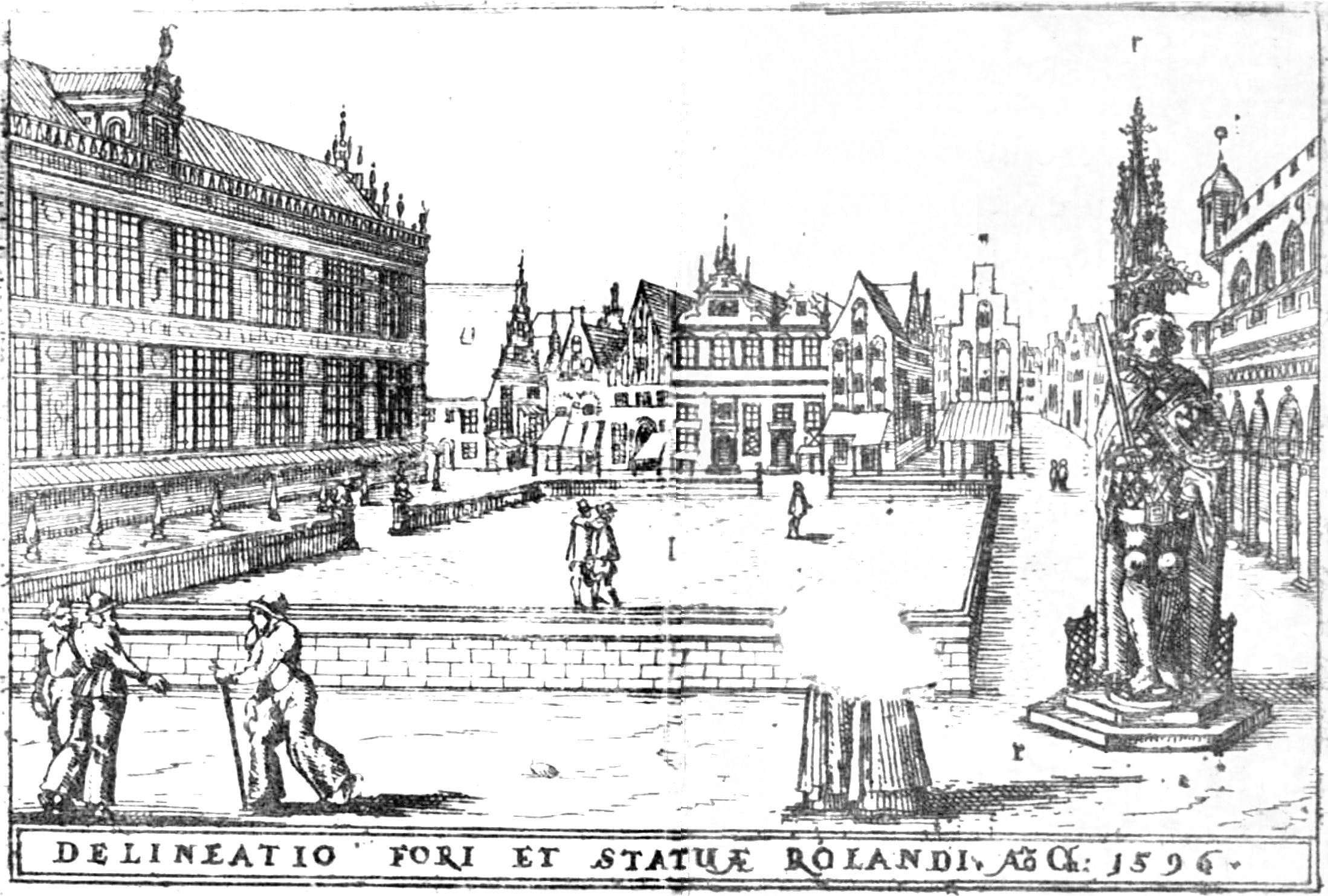 Bremen market place and Roland sculpture in 1596